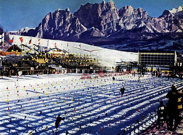 Cortina d'Ampezzo Olympic Snow Stadium in Italy during the 1956 Winter Olympics. Author unknown. Photo found on: Per below, Italian copyright expired in the 1970s, therefore not copyrighted in the US